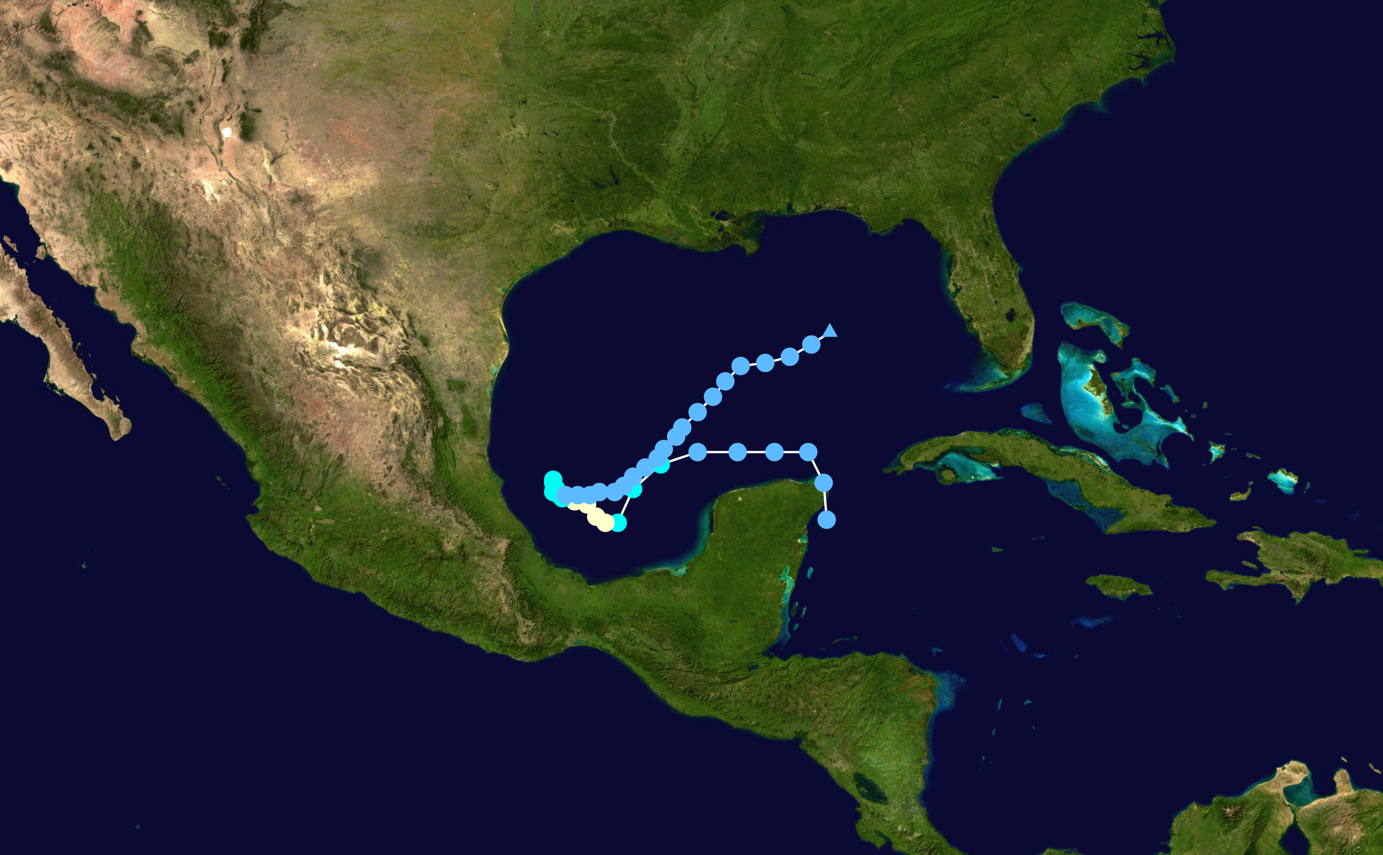 Track map of Hurricane Henri of the 1979 Atlantic hurricane season. The points show the location of the storm at 6-hour intervals. The colour represents the storm's maximum sustained wind speeds as classified in the Saffir–Simpson scale (see below), and the shape of the data points represent the nature of the storm, according to the legend below. Saffir–Simpson scale Tropical depression≤38 mph≤62 km/h Category 3111–129 mph178–208 km/h Tropical storm39–73 mph63–118 km/h Category 4130–156 mph209–251 km/h Category 174–95 mph119–153 km/h Category 5≥157 mph≥252 km/h Category 296–110 mph154–177 km/h Unknown Storm type Tropical cyclone Subtropical cyclone Extratropical cyclone / Remnant low / Tropical disturbance / Monsoon depression